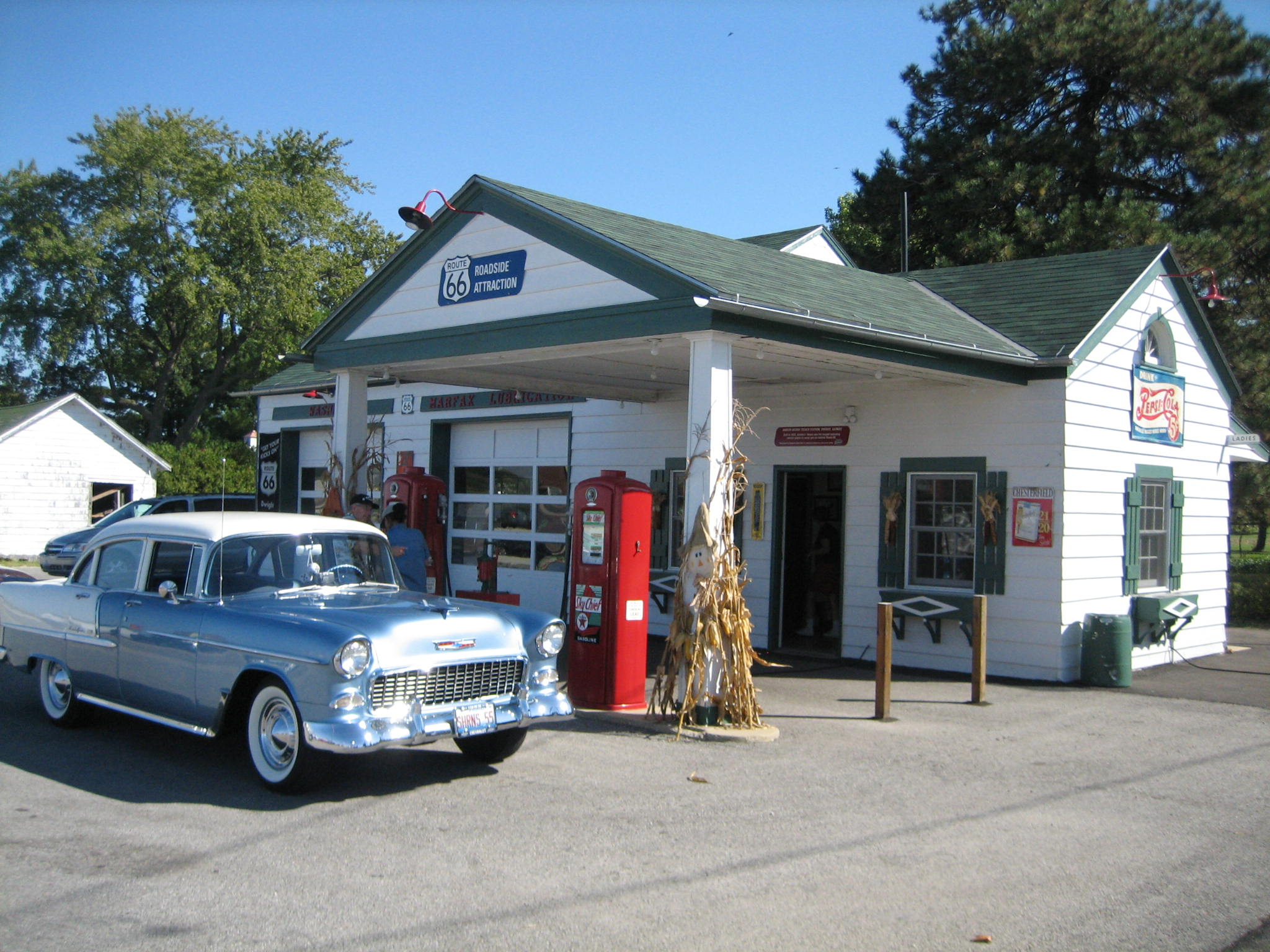 Ambler's Texaco Gas Station, Dwight, Illinois, USA, along historic U.S. Route 66. 1955 Chevrolet Bel Air Series 2400C, Model 2403 4-door Sedan in front.